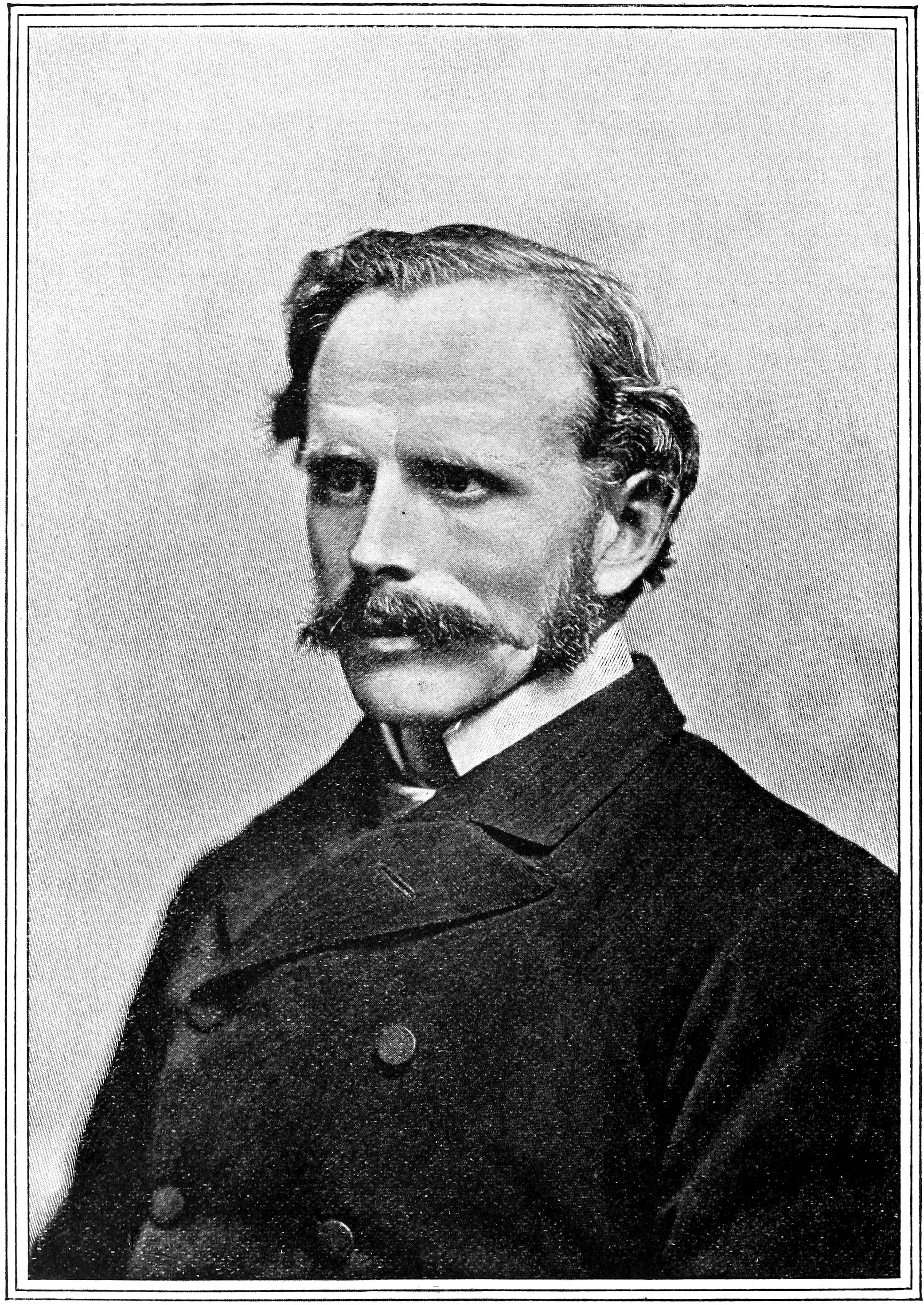 Professor Henry Drummond